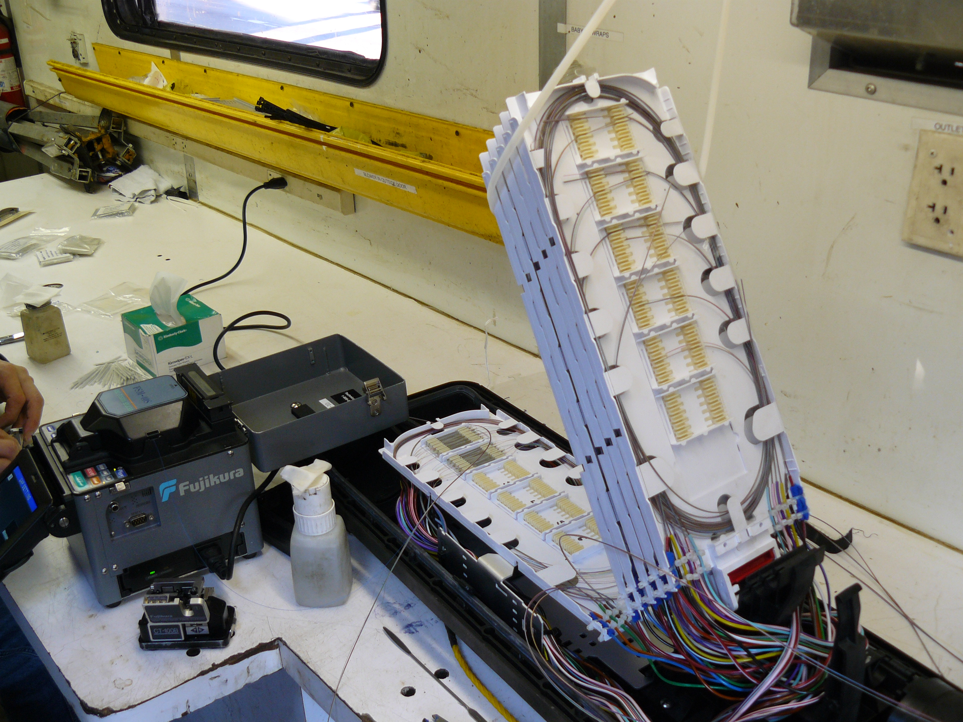 A fiber optic splice case opened up.